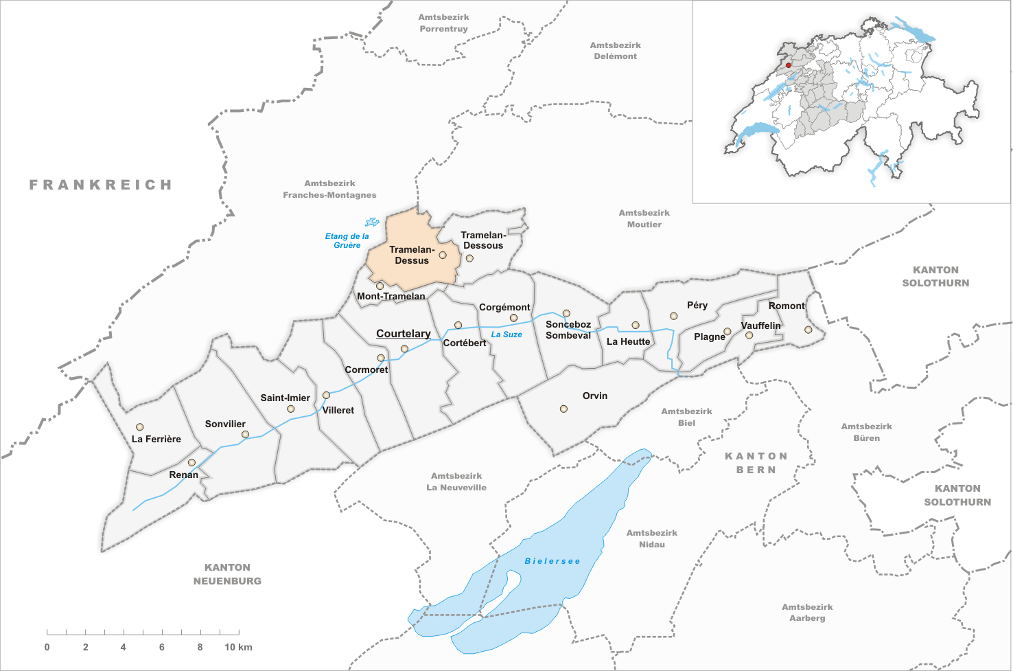 Municipality Tramelan-Dessus